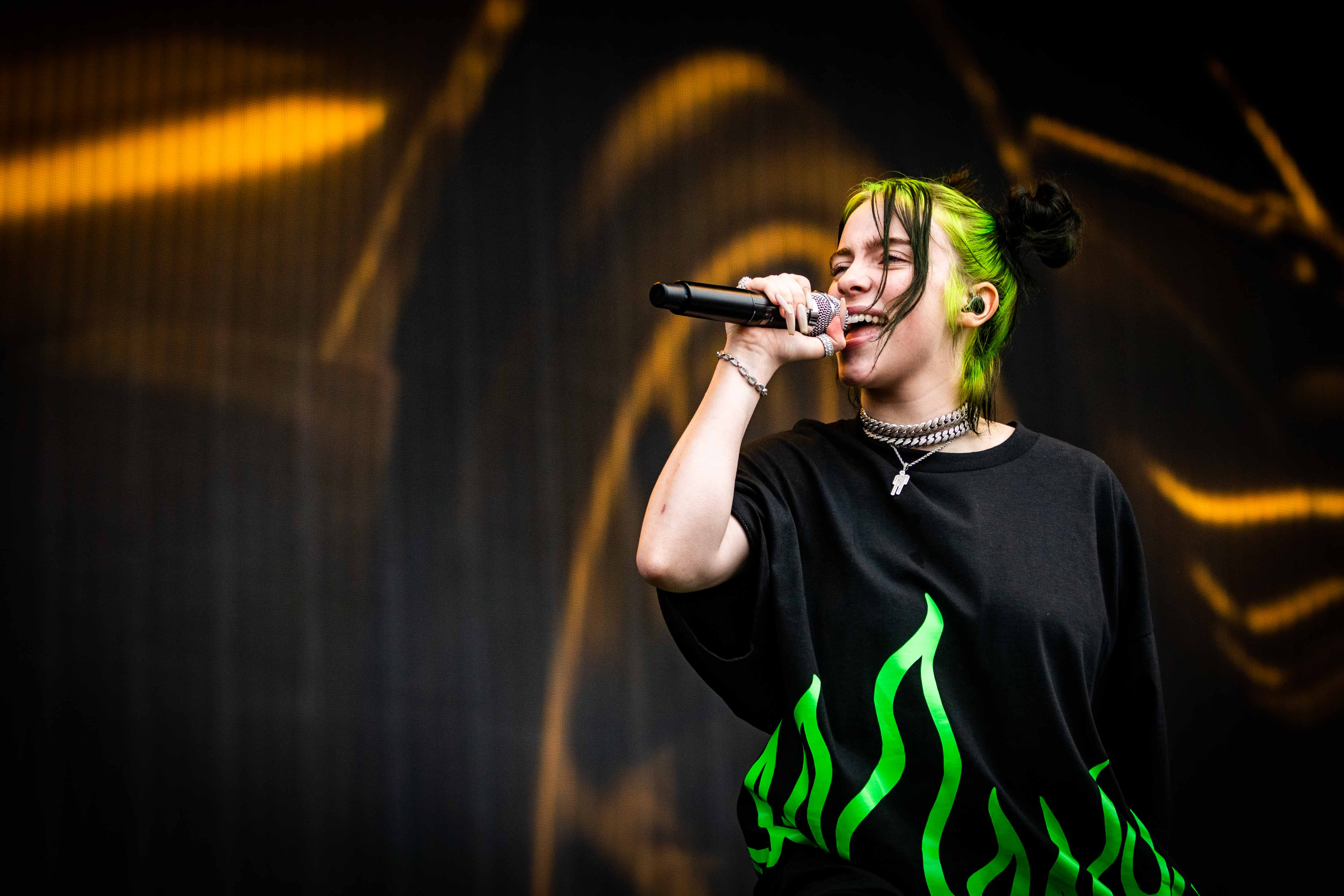 Billie Eilish at 2019 Pukkelpop Music Festival which take place in Kiewit, Hasselt, Belgium. © Lars Crommelinck Photography BillieEilish #Pukkelpop2019